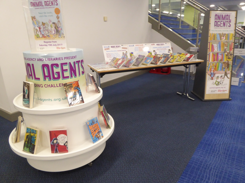 Book display in Cambridge central library. Visited during a meeting of the Libraries Taskforce. Photo credit: Julia Chandler/Libraries Taskforce